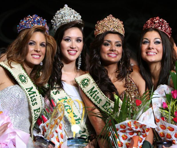 Winner and runners-up of the Miss Earth 2007 pageant: (L to R) Miss Water (Venezuela), Miss Earth (Canada), Miss Earth Air (India) & Miss Earth Fire (Spain).